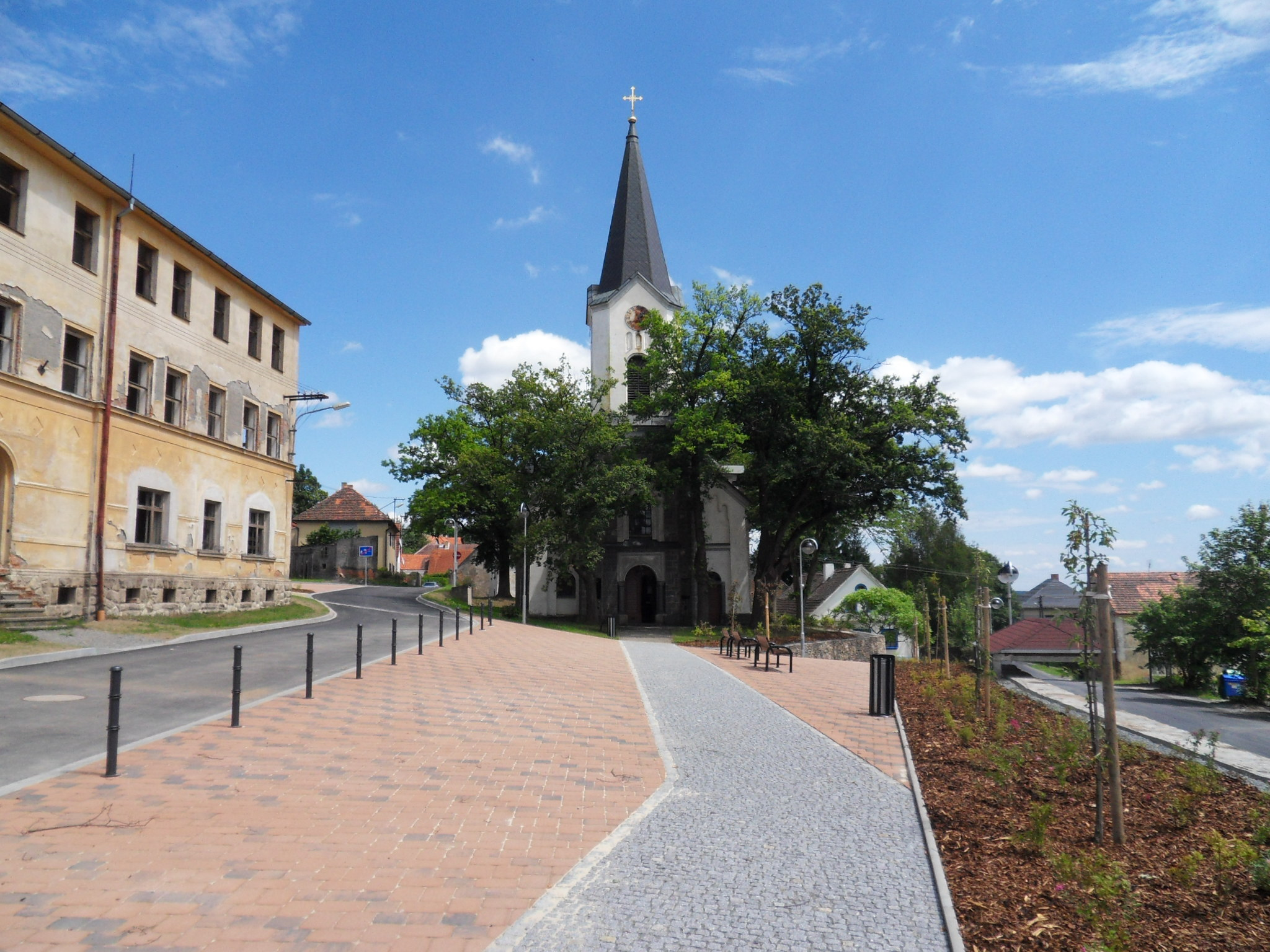 Okrouhlé Hradiště (village in Tachov District, Czech Republic)